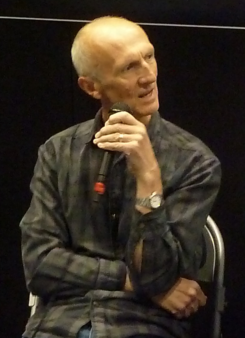 Collectormania Glasgow - Game of Thrones Talk